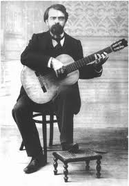 Francisco Tárrega, spanish musician from XIX century.